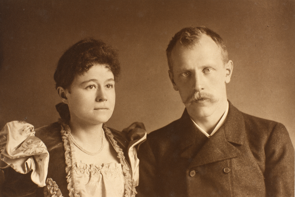 Fridtjof and Eva Nansen (approx. 1897)